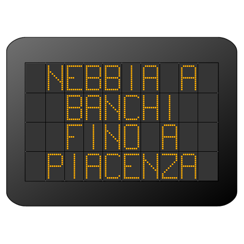 Draw of italian road information panel, made by me. The sign says "Fog banks till Piacenza".